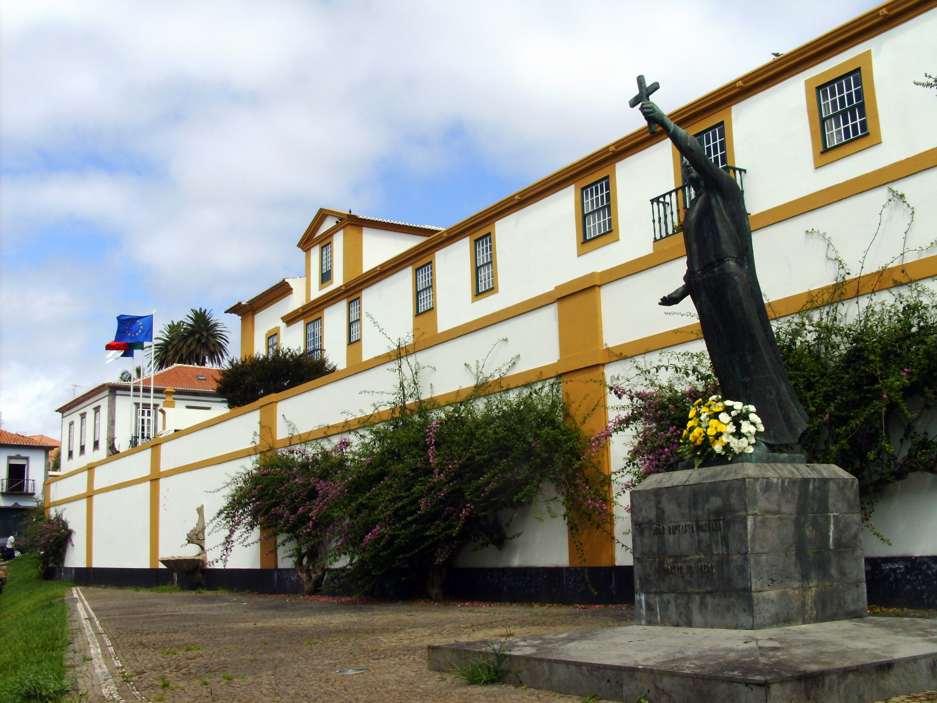 The Palácio dos Capitães-Generais, Angra do Heroísmo, Terceira (Azores), Portugal